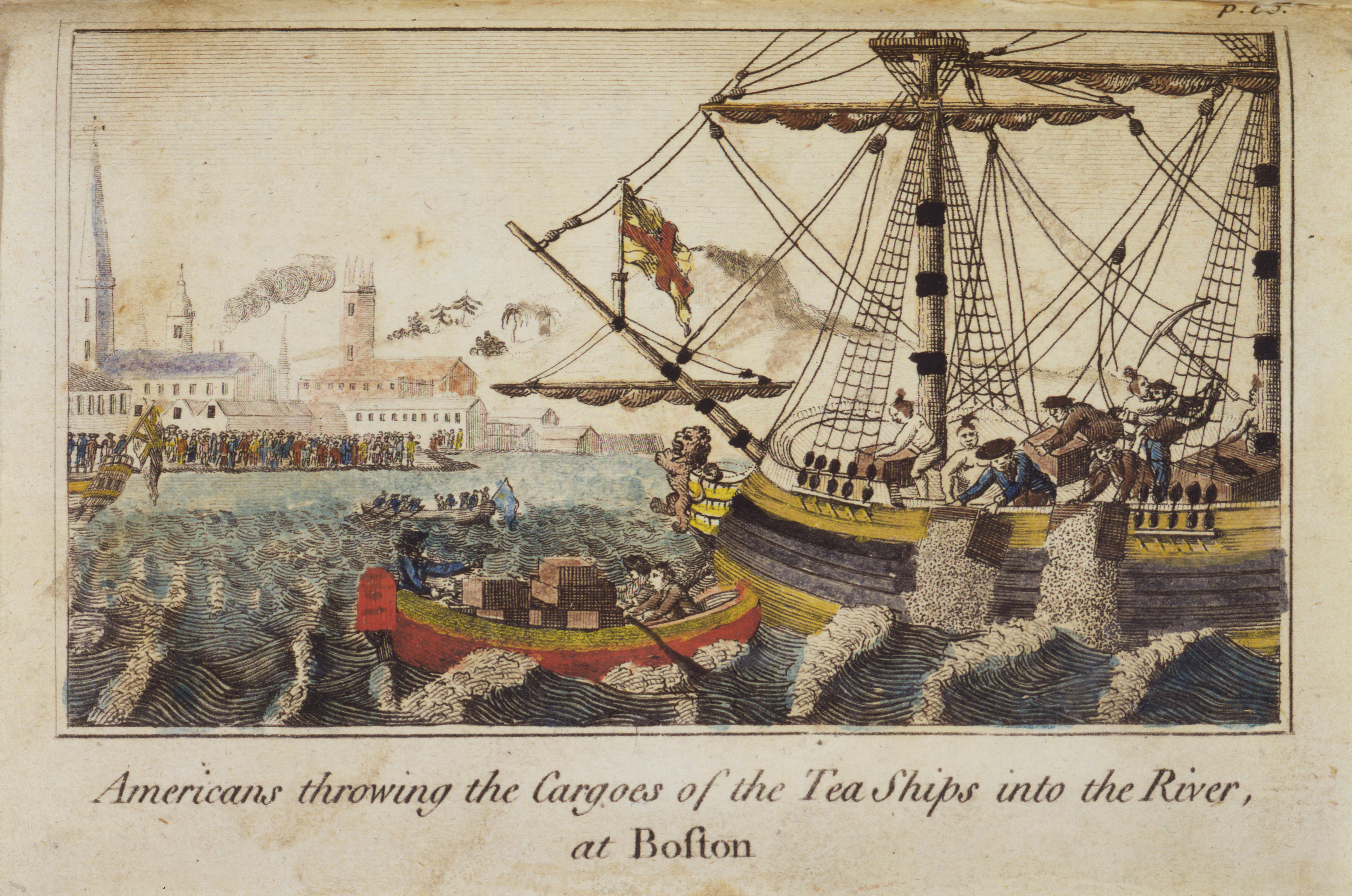 Boston Tea Party ("Americans throwing Cargoes of the Tea Ships into the River, at Boston").